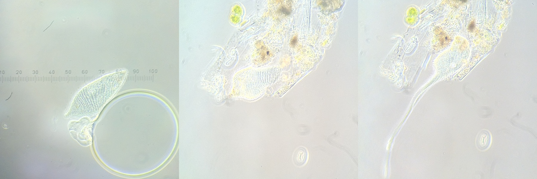 Lacrymaria olor, a predatory ciliate with an extensible proboscis, montage of three microscopic images